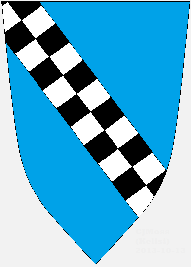 Arms formerly borne by the knightly family of Montfort (Germany)